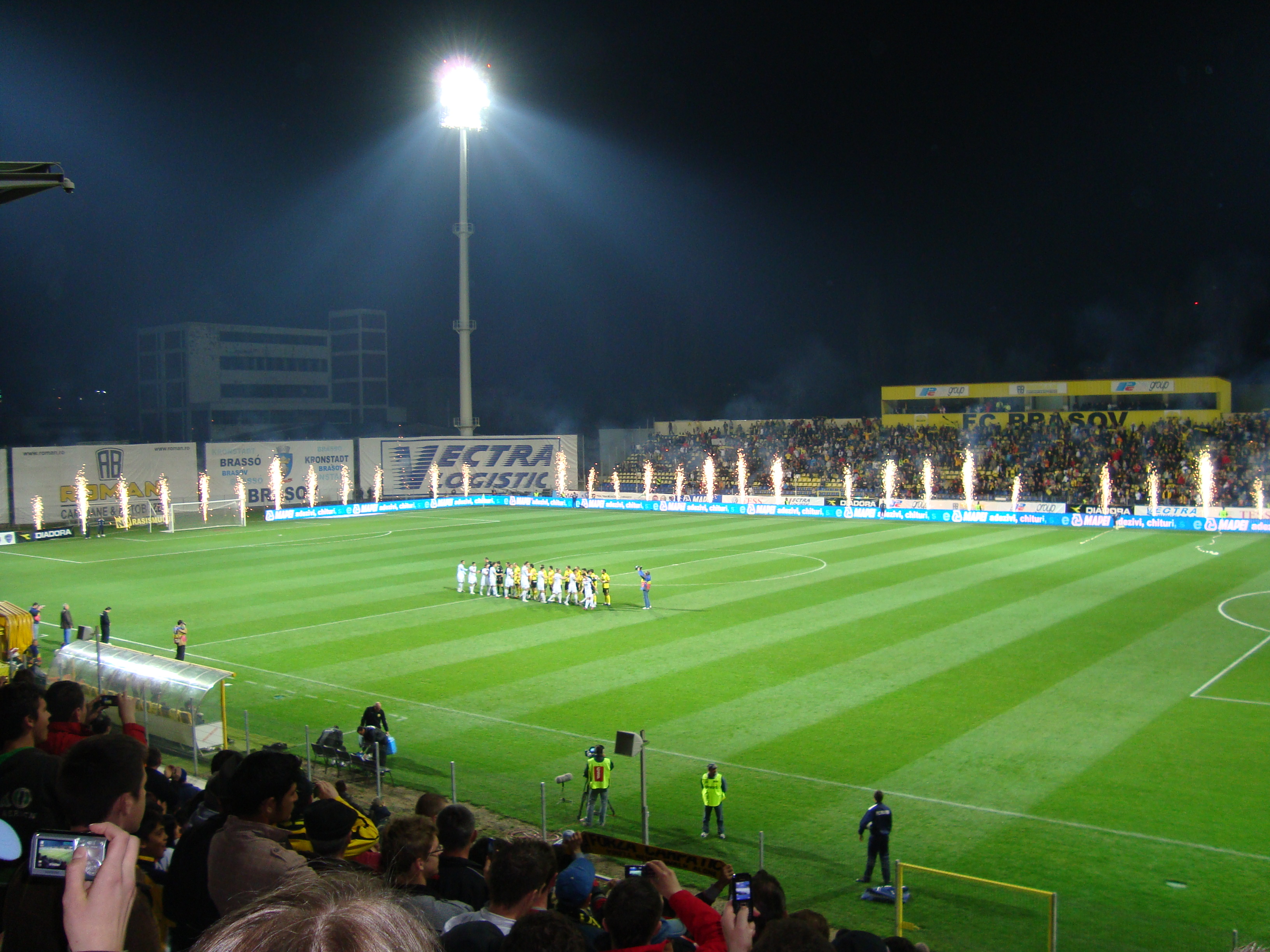 The "Silviu Ploeşteanu" stadium in Braşov, Romania at a game between FC Braşov and Gaz Metan Mediaş